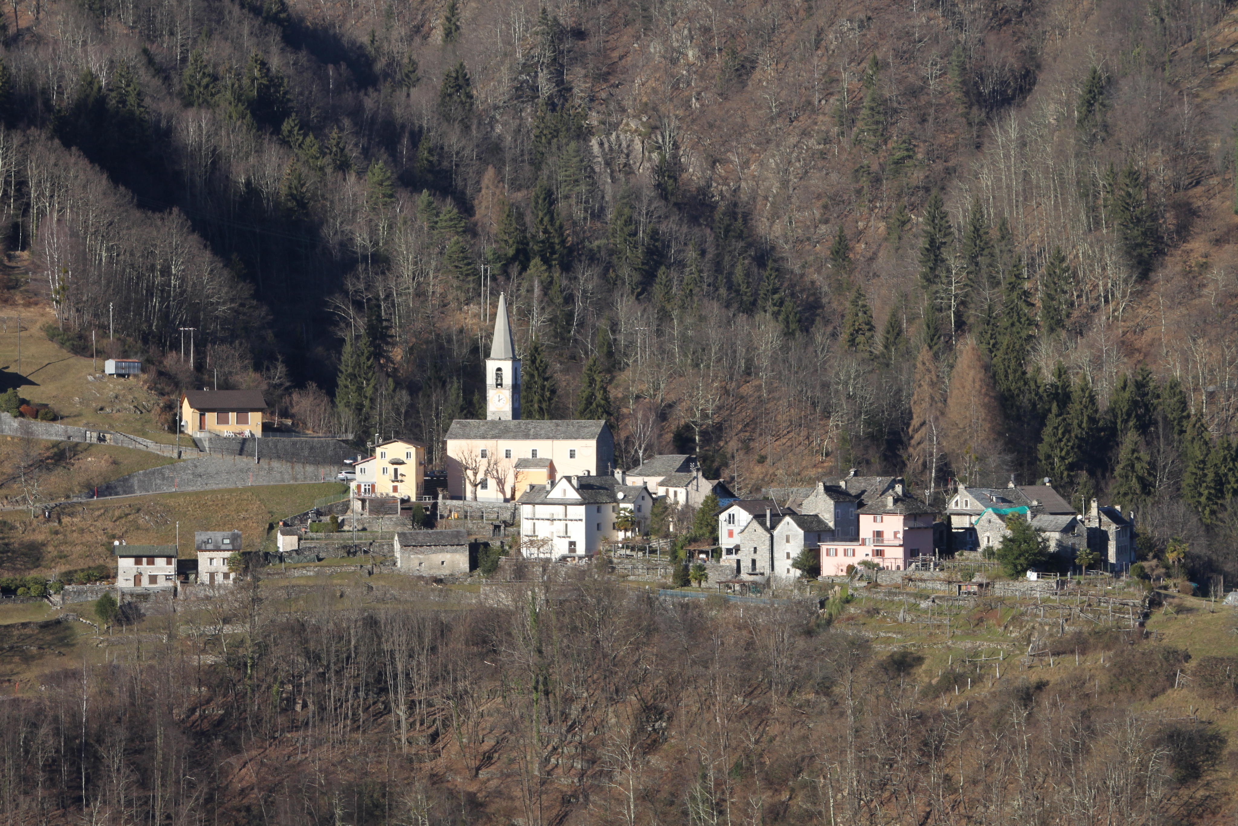 Borgnone village, seen from Moneto.